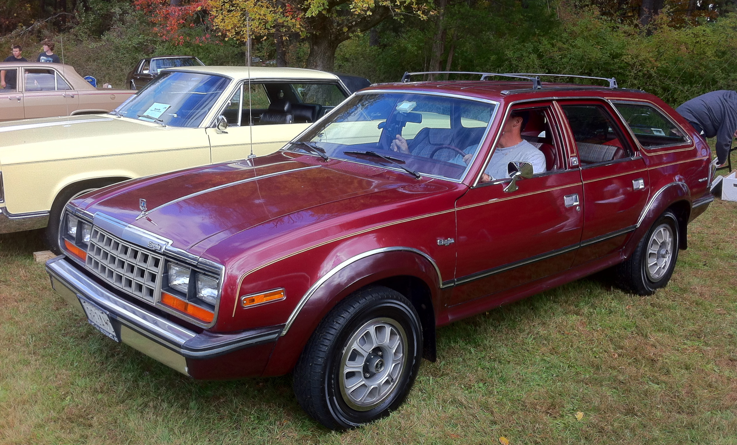 1983 AMC Eagle station wagon, an innovative automatic all-wheel-drive vehicle made by the American Motors Corporation (AMC). Left front view. Base model finished in two-tone red. Picture taken at the annual antique car show sponsored by the City of Rockville, Maryland.